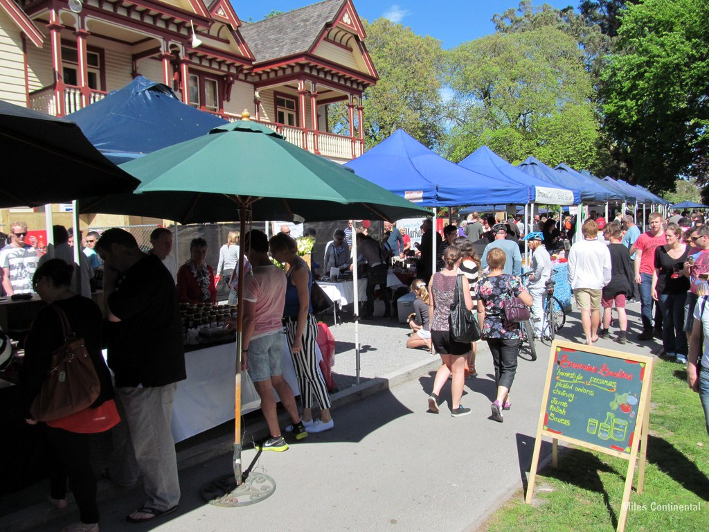 Photos from the Christchurch Farmers' Market. Miles Continental attended and took along two brand new Renault cars to show-off to the crowds!